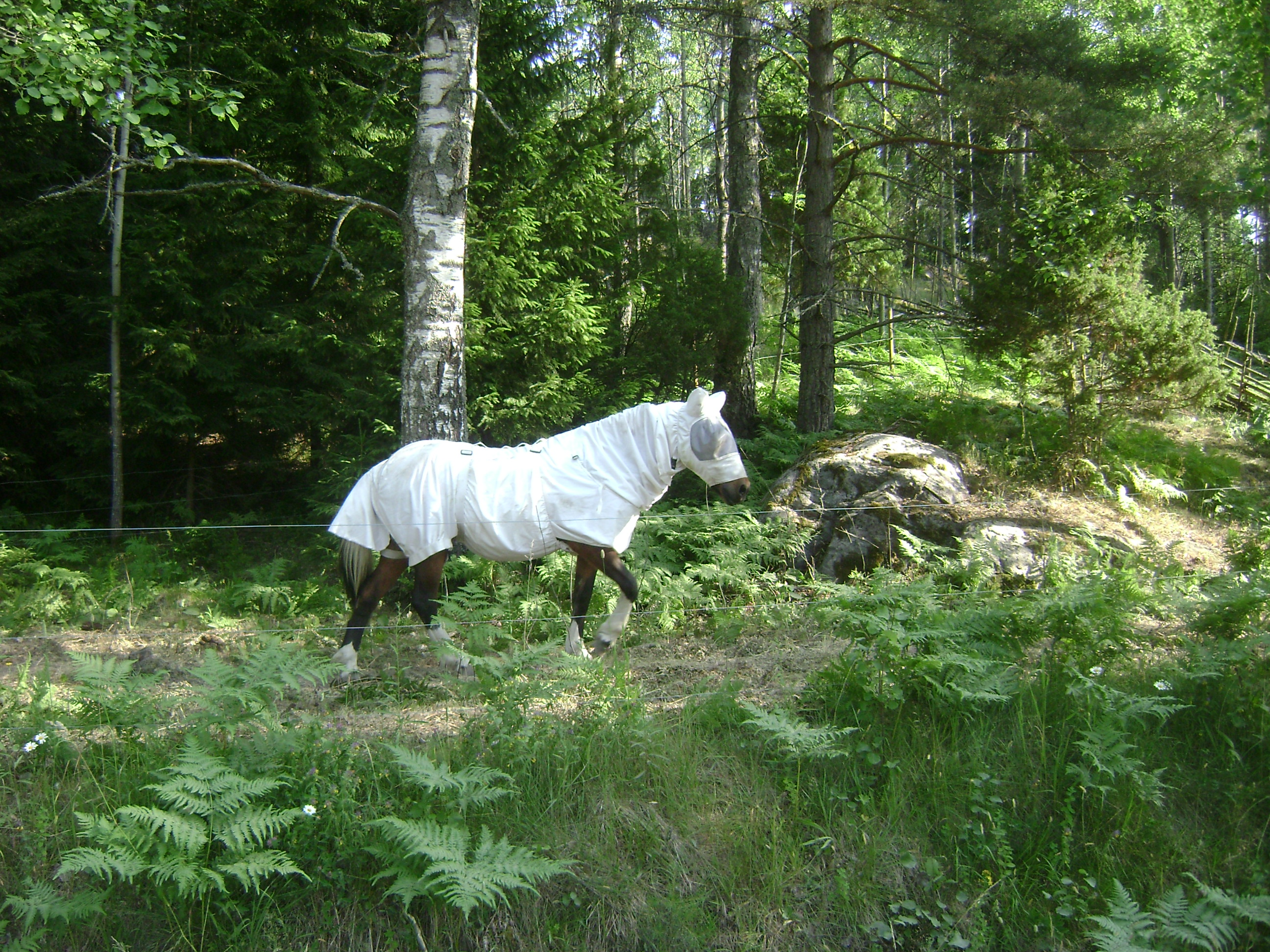 Sweden. Stockholm County. Haninge Municipality